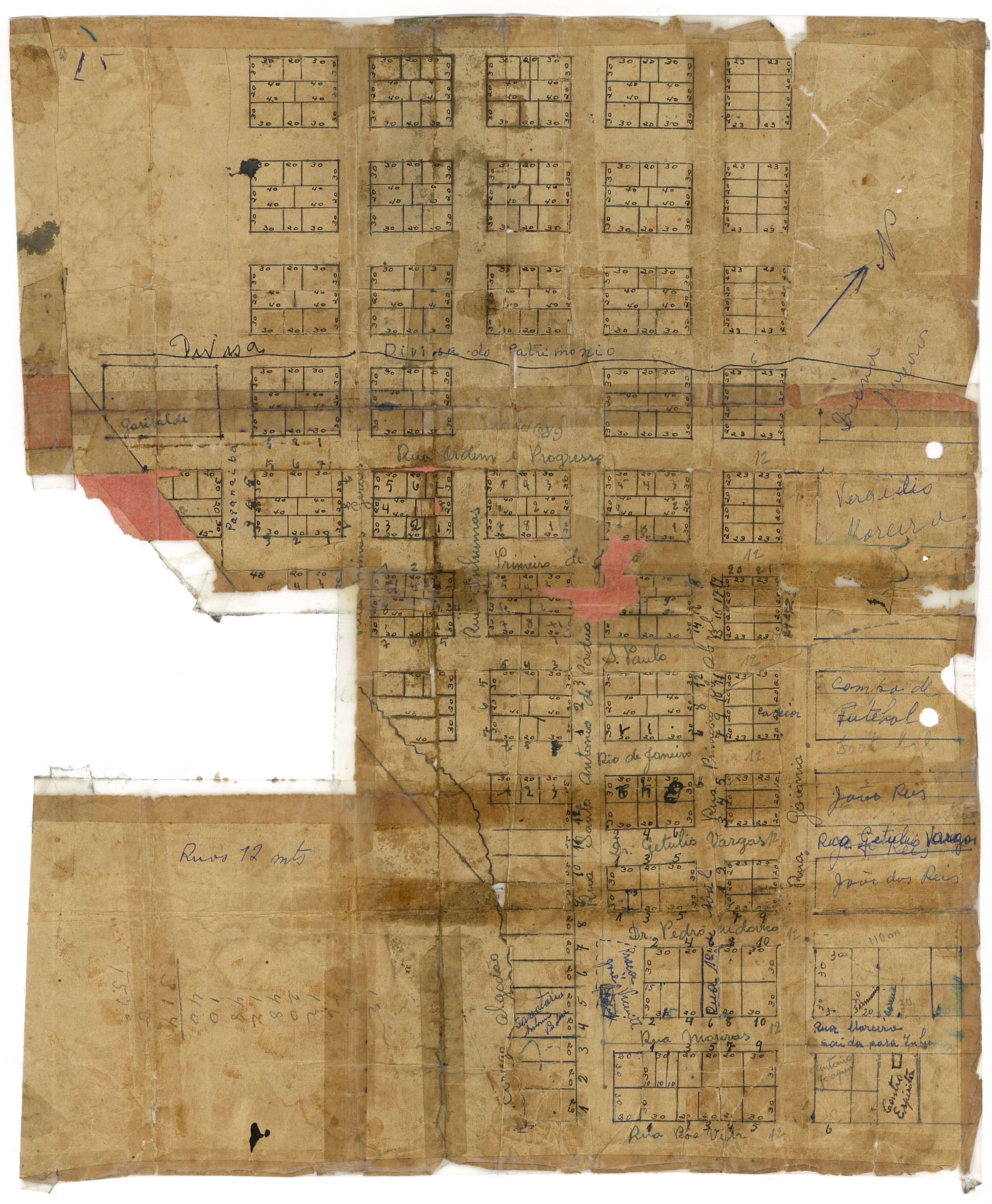 Plano original da atual cidade de Caturaí, inicialmente conhecida como Santo Antônio de Pádua. Realizado por autoria de João Miguel de Lima.